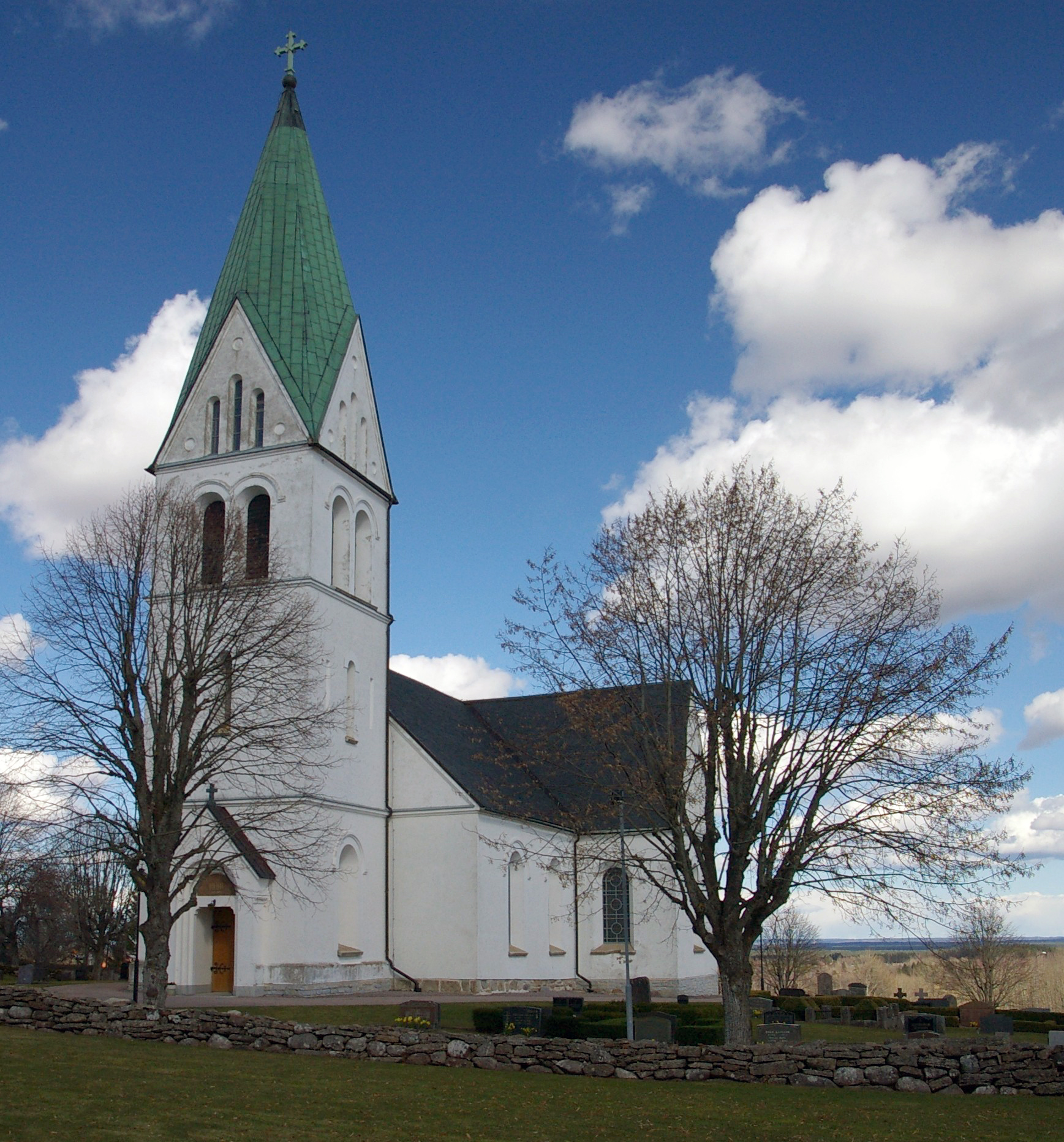 Borgunda kyrka (swedish: church of Borgunda), Västergötland, Sweden. The church was built in 1766 - 1767 after the old church had been destroyed two years earlier in a lightning strike. The tower was erected in 1890.